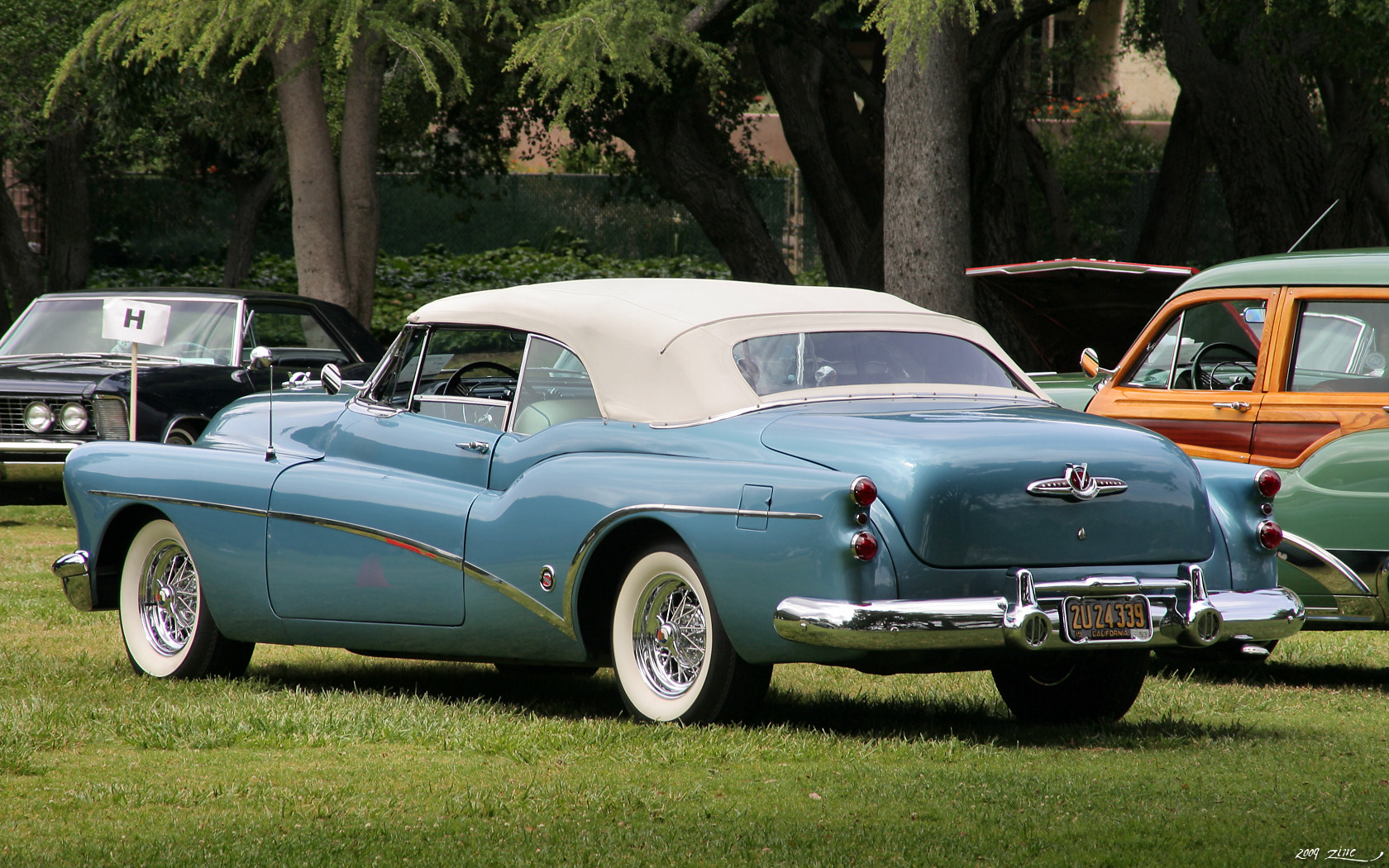 Glendale, CA, Buick Club, May 2, 2009